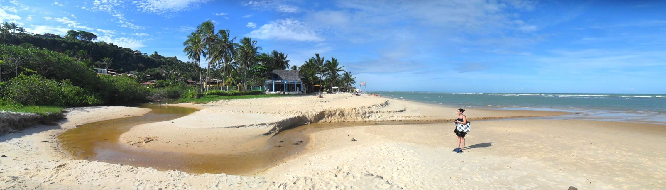 Mucugê river, at Arraial d'Dajuda